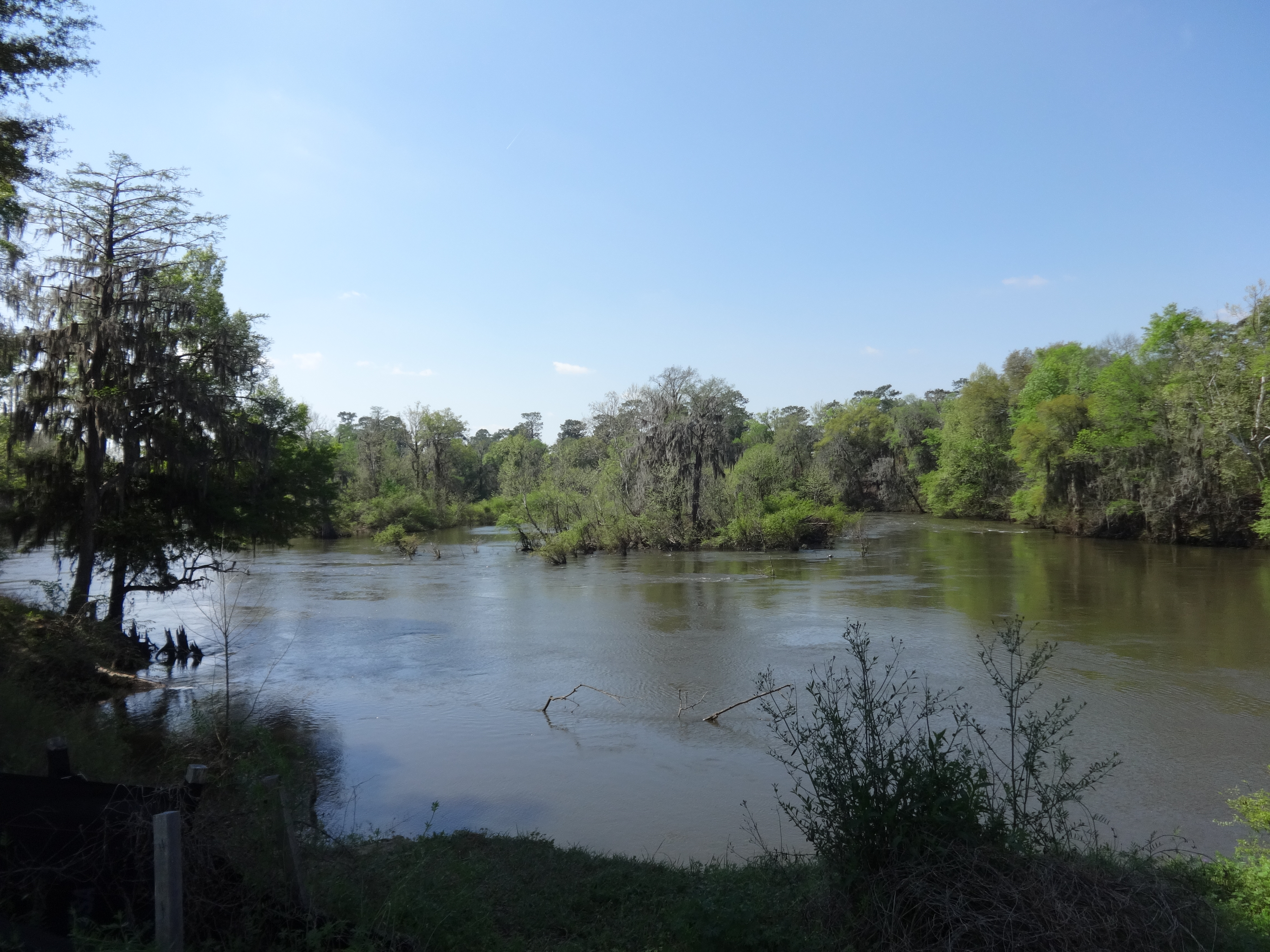 Flint River Park, Mitchell County, Georgia